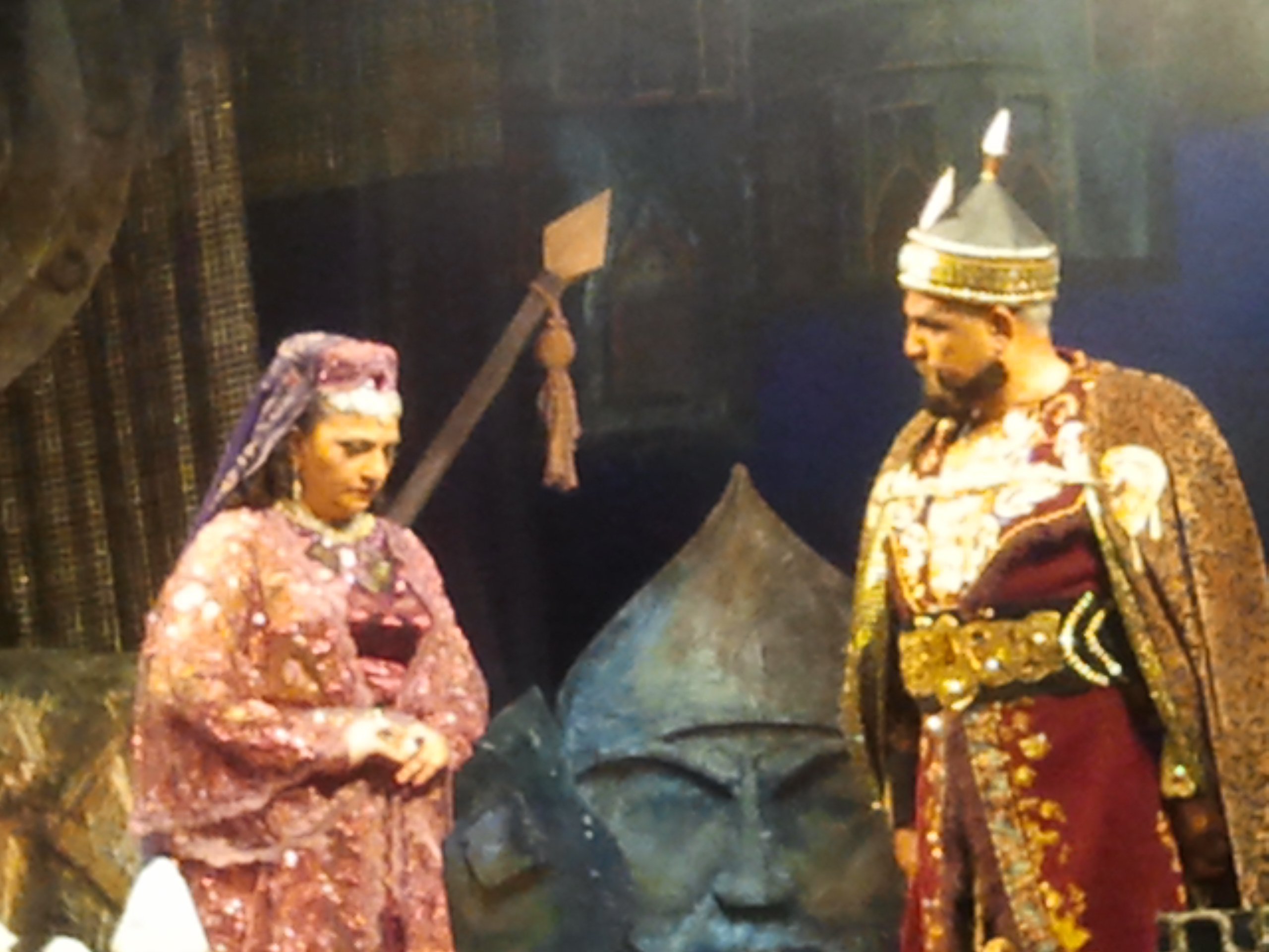 Amir Teymur (Spectacle of Azerbaijan State Academic Drama Theatre, 22 June 2014)